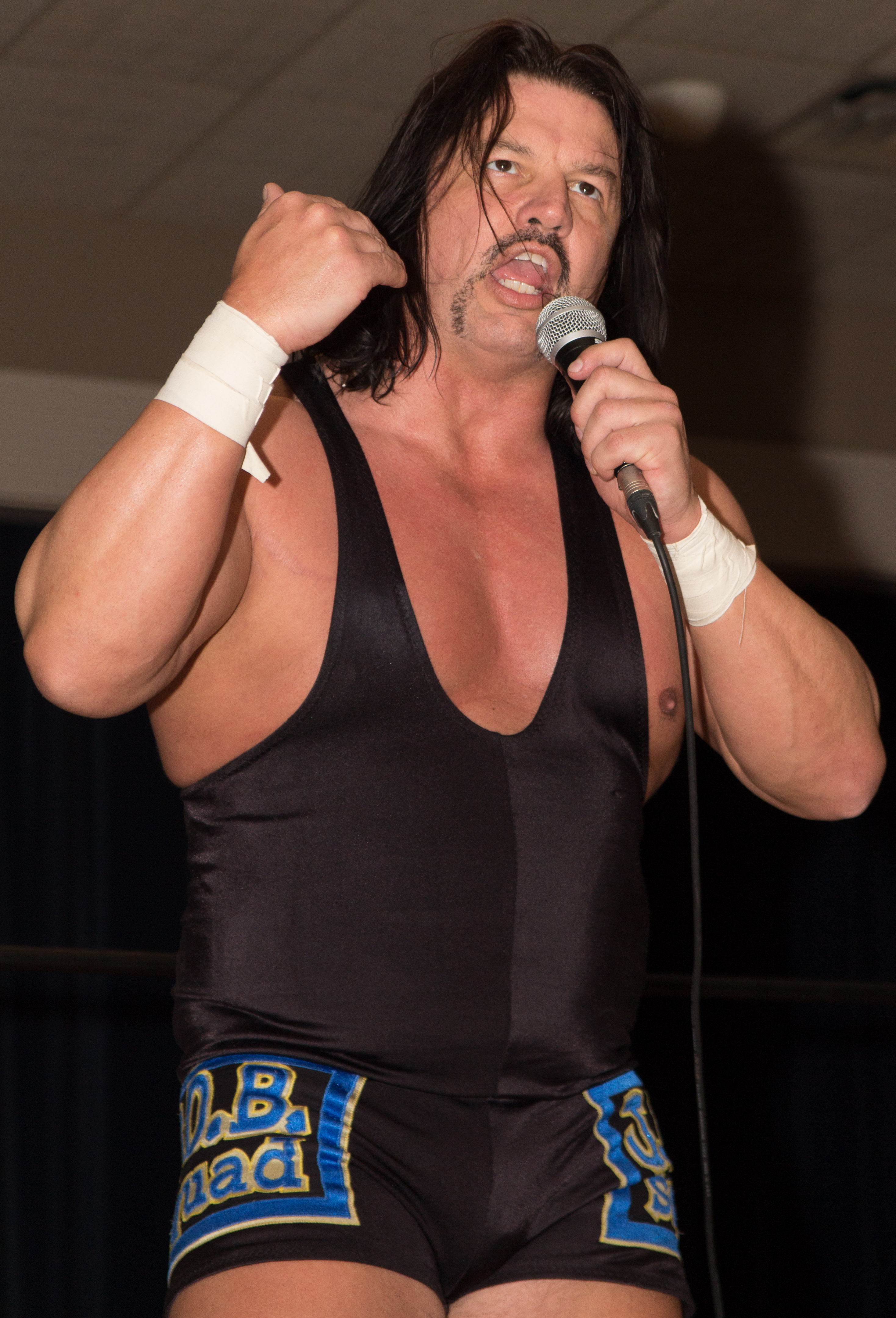 An image of professional wrestler Al Snow. Other information This is a cropped version of a free use file from the Wikimedia Commons.